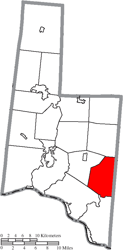 Map of the municipal and township boundaries of Brown County, Ohio, United States, as of the 2000 census, with the location of Byrd Township highlighted. Township borders are shown only in unincorporated areas in order to differentiate incorporated and unincorporated areas more clearly.